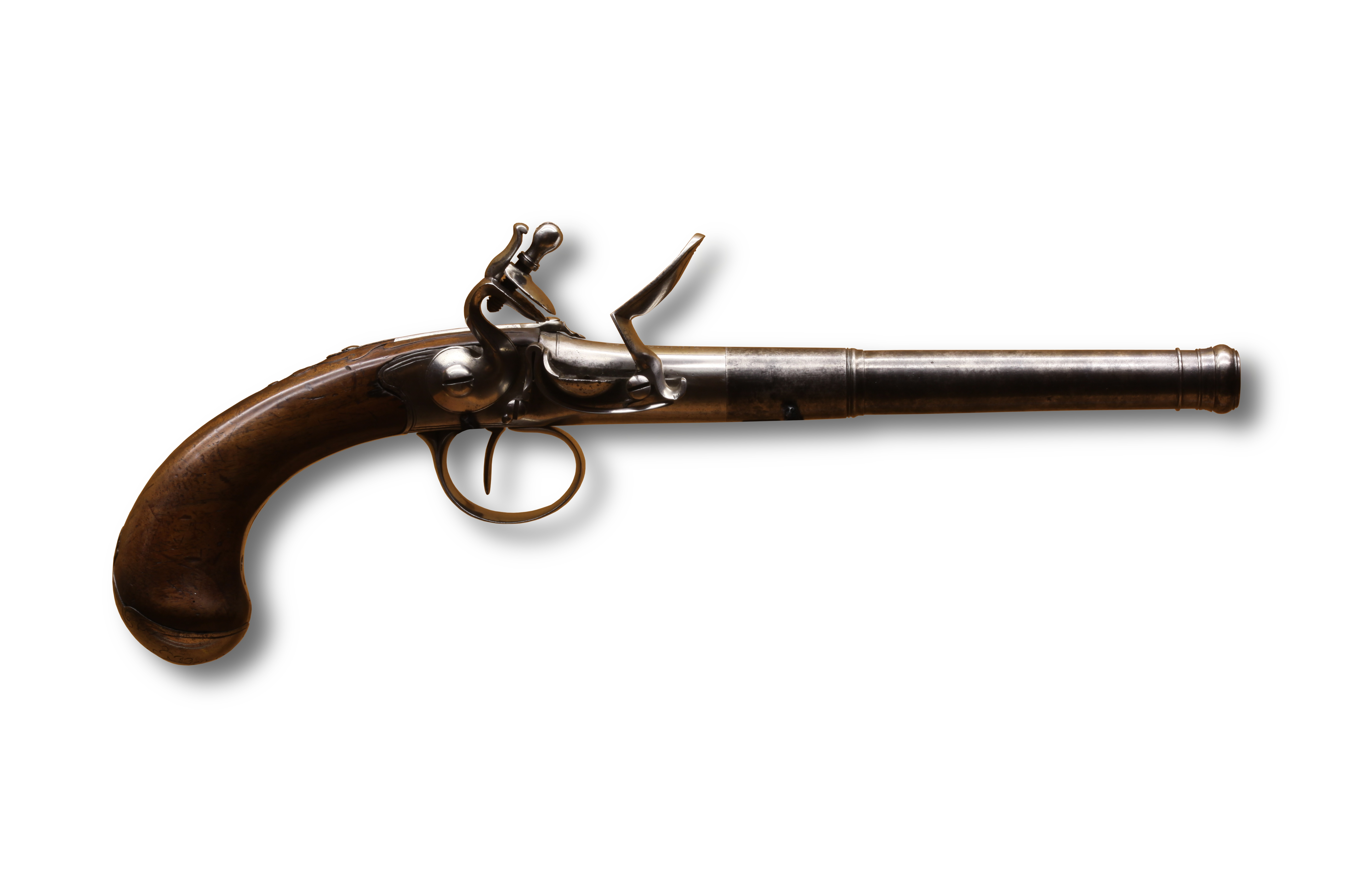 Silex pistol in "Queen Anne" layout, made in Lausanne by Galliard, circa 1760. On display at Morges military museum, access number MMV 1004707.